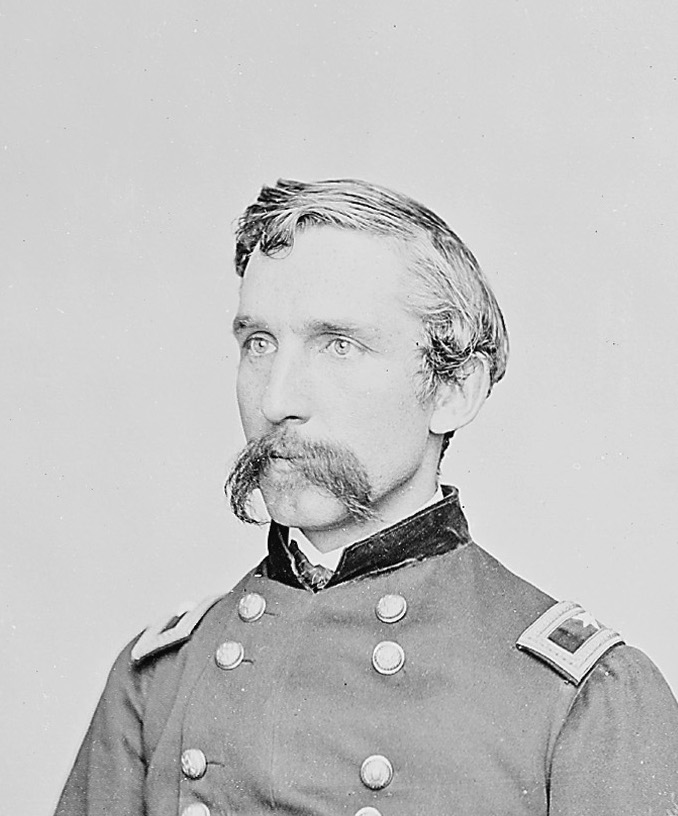 Original Caption: Gen. Joshua L. Chamberlain U.S. National Archives’ Local Identifier: 111-B-3527 From:: Series: Mathew Brady Photographs of Civil War-Era Personalities and Scenes, (Record Group 111) Photographer: Brady, Mathew, 1823 (ca.) - 1896 Coverage Dates: ca. 1860 - ca. 1865 Subjects: American Civil War, 1861-1865 Brady National Photographic Art Gallery (Washington, D.C.) Persistent URL: Repository: Still Picture Records Section, Special Media Archives Services Division (NWCS-S), National Archives at College Park, 8601 Adelphi Road, College Park, MD, 20740-6001. For information about ordering reproductions of photographs held by the Still Picture Unit, visit: Reproductions may be ordered via an independent vendor. NARA maintains a list of vendors at Buy copies of selected National Archives photographs and documents at the National Archives Print Shop online: Access Restrictions: Unrestricted Use Restrictions: Unrestricted